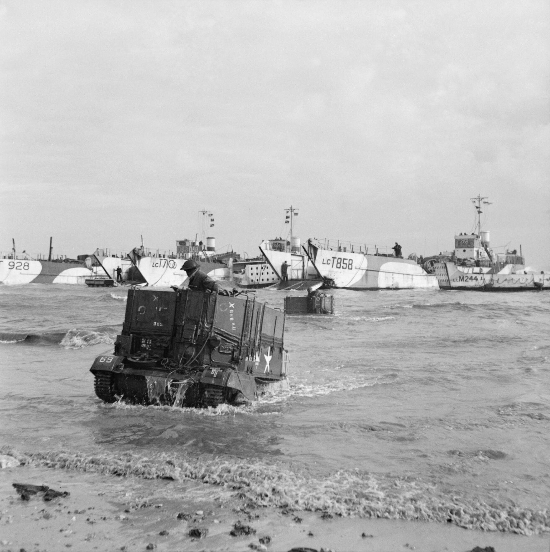 D-day - British Forces during the Invasion of Normandy 6 June 1944 Universal Carriers of 50th Division wade ashore from LCTs on Jig beach, Gold area, 6 June 1944. LCT 928, LCT 710, LCT 858 and LCM 244 are visible in the background. The markings on the carrier indicate a vehicle from 1st Dorsetshire Regiment, 231st Brigade.